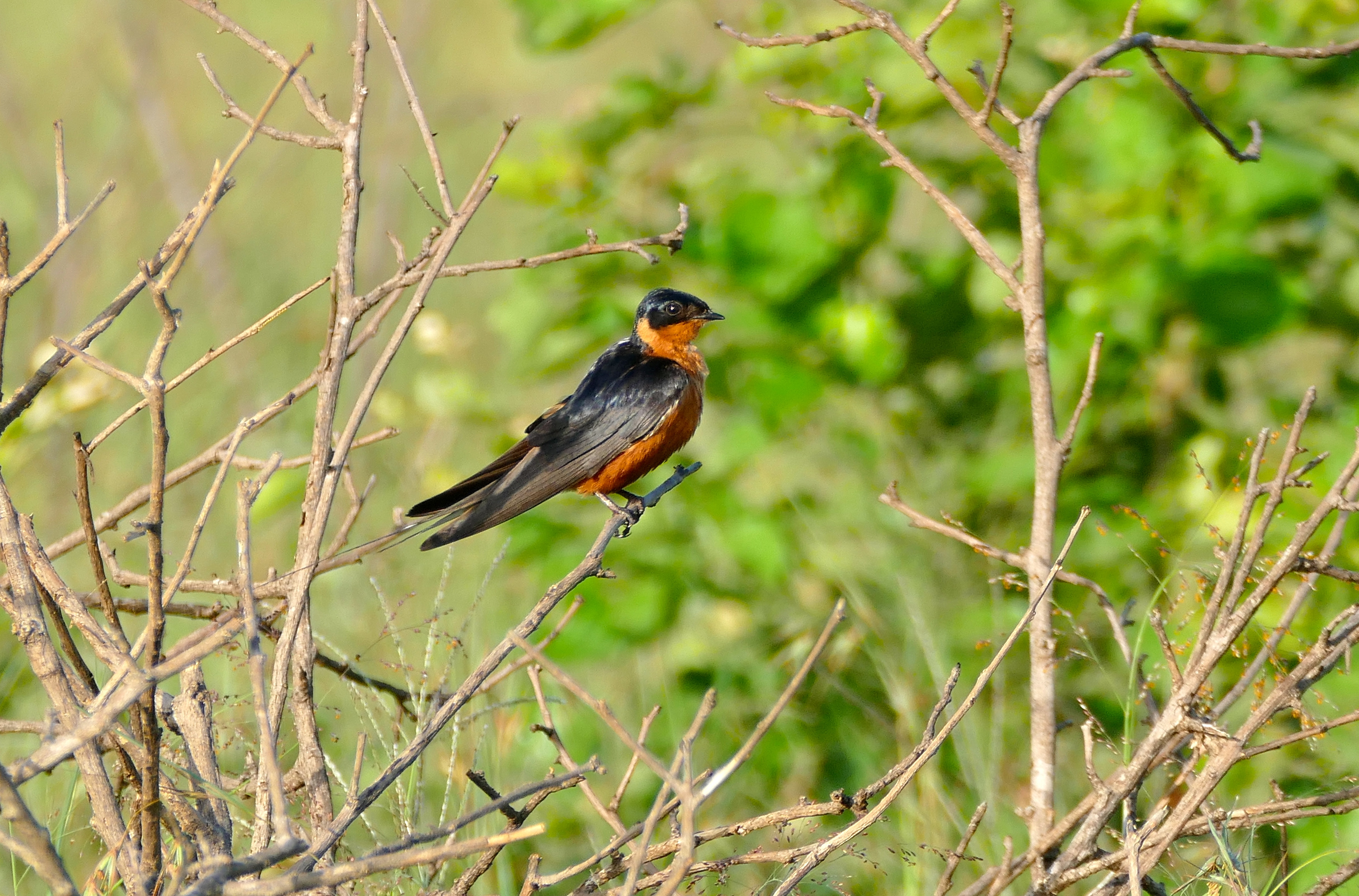 H10 Road North of Lower Sabie, Kruger NP, SOUTH AFRICA